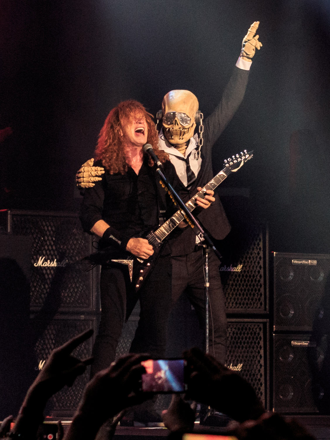 Dave Mustaine and Megadeth's mascot Vic Rattlehead live on stage at The O2, London, 16 June 2018